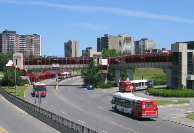 Ottawa's Lincoln Fields OCTranspo station